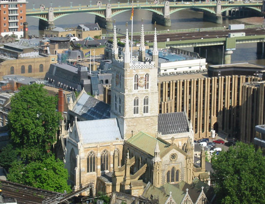 Southwark Cathedral. Taken from the 24th floor of an office building above London Bridge station.